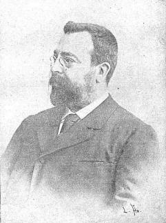 Josep Tolosa (chess player)